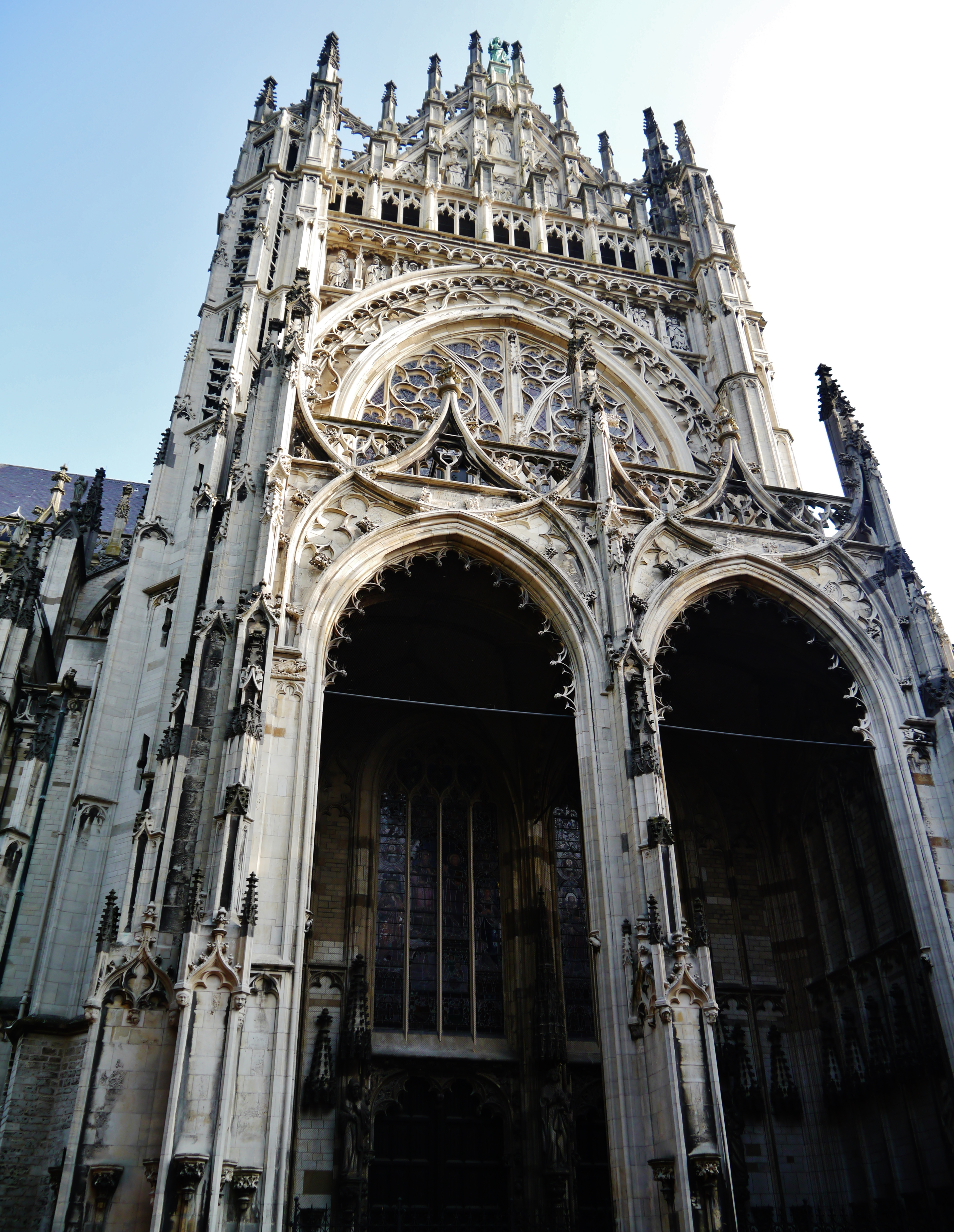 Transept of the Cathedral St. John, 's-Hertogenbosch, Province of North Brabant, Netherlands